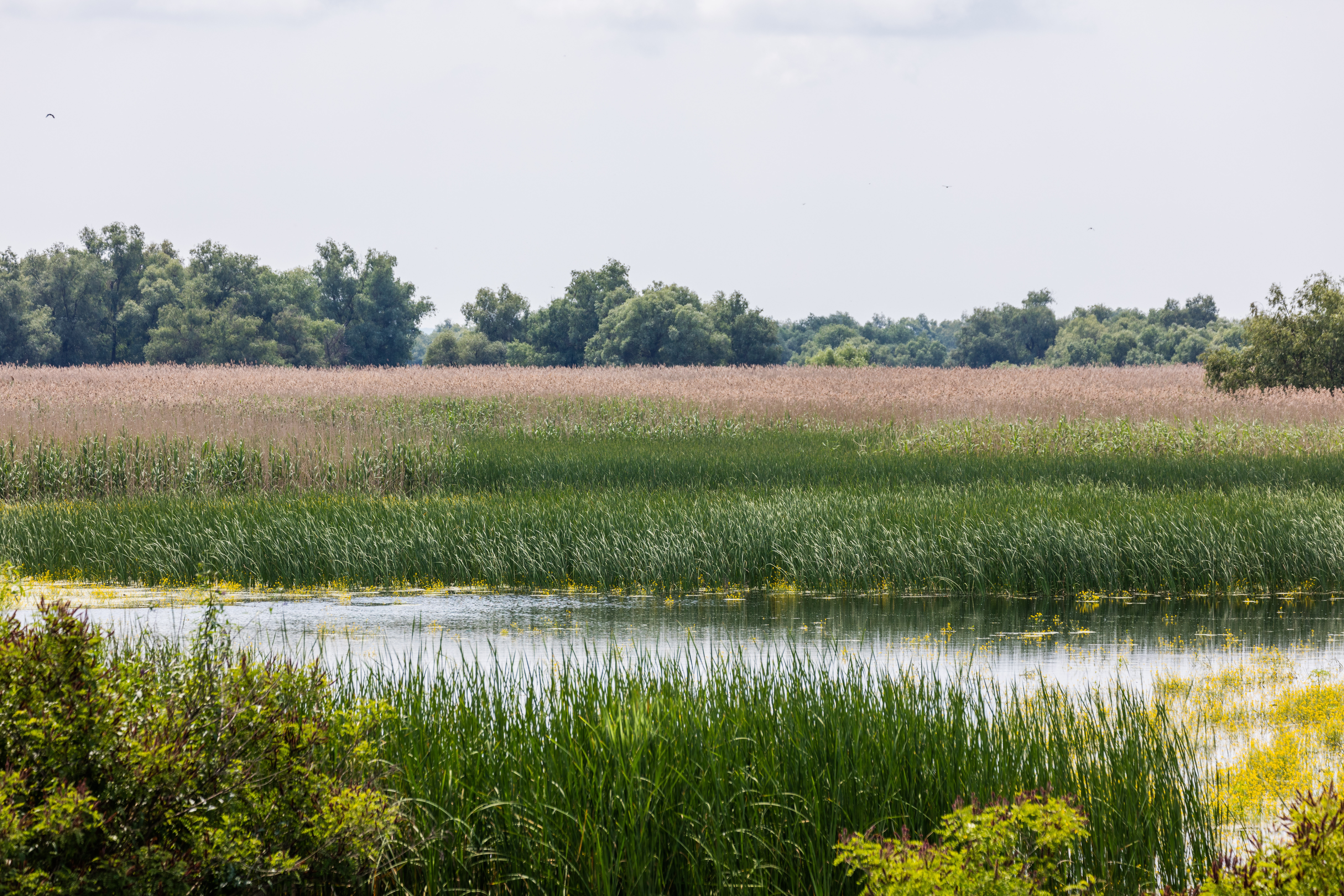 Reeds (Phragmites australis), Danube Delta, Romania